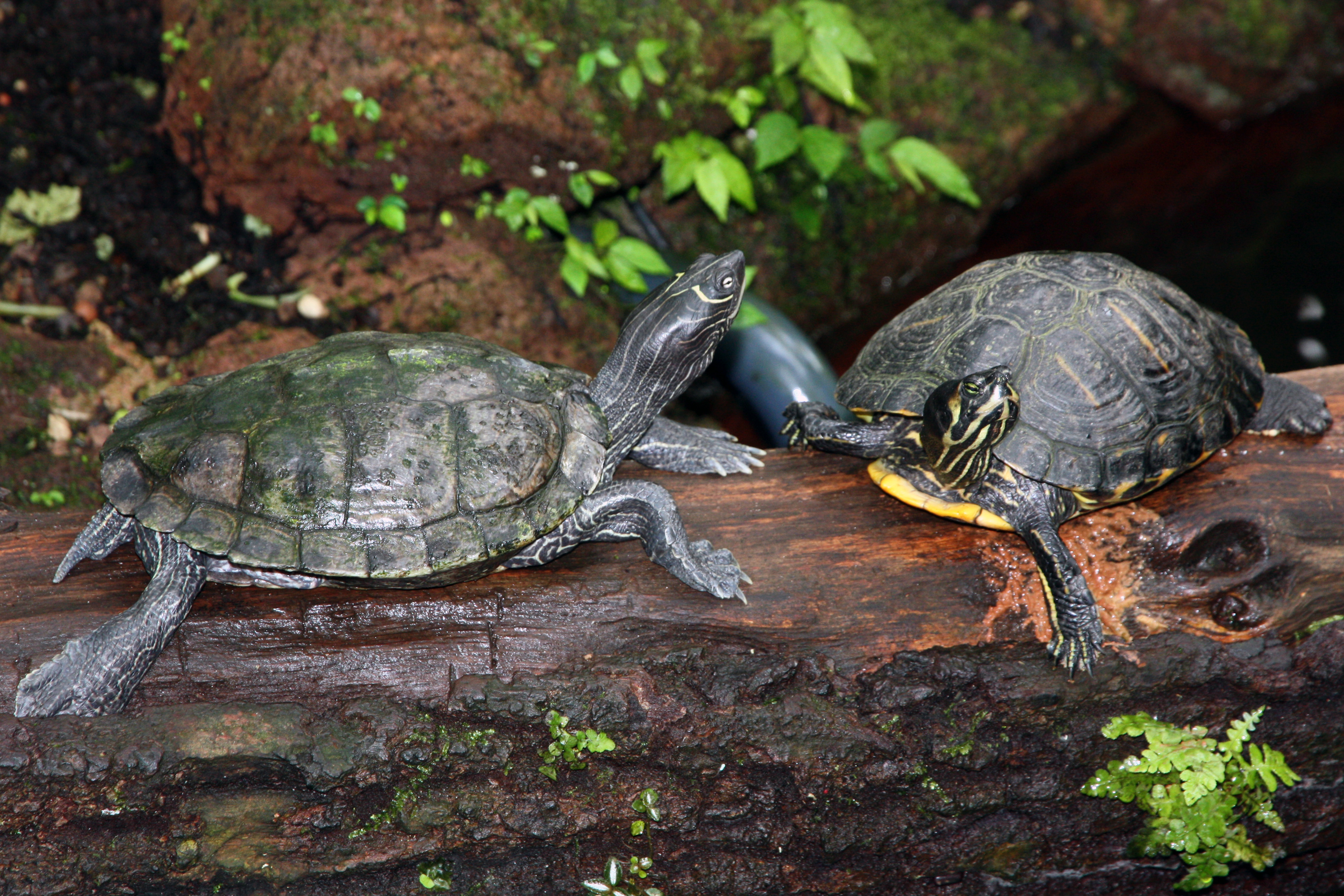 This photo was taken in March 2013 at the Munich Botanical Garden (German: Botanischer Garten München-Nymphenburg) in greenhouse number 4 of the glasshouse complex where turtles wander around freely in a warm and humid tropical rain forest environment.